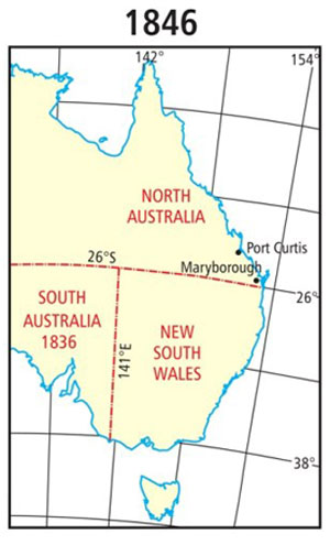 1846 Eastern Australia state boundaries